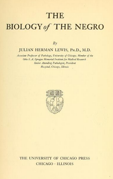 Front page of The Biology of the Negro by Julian Herman Lewis, 1942